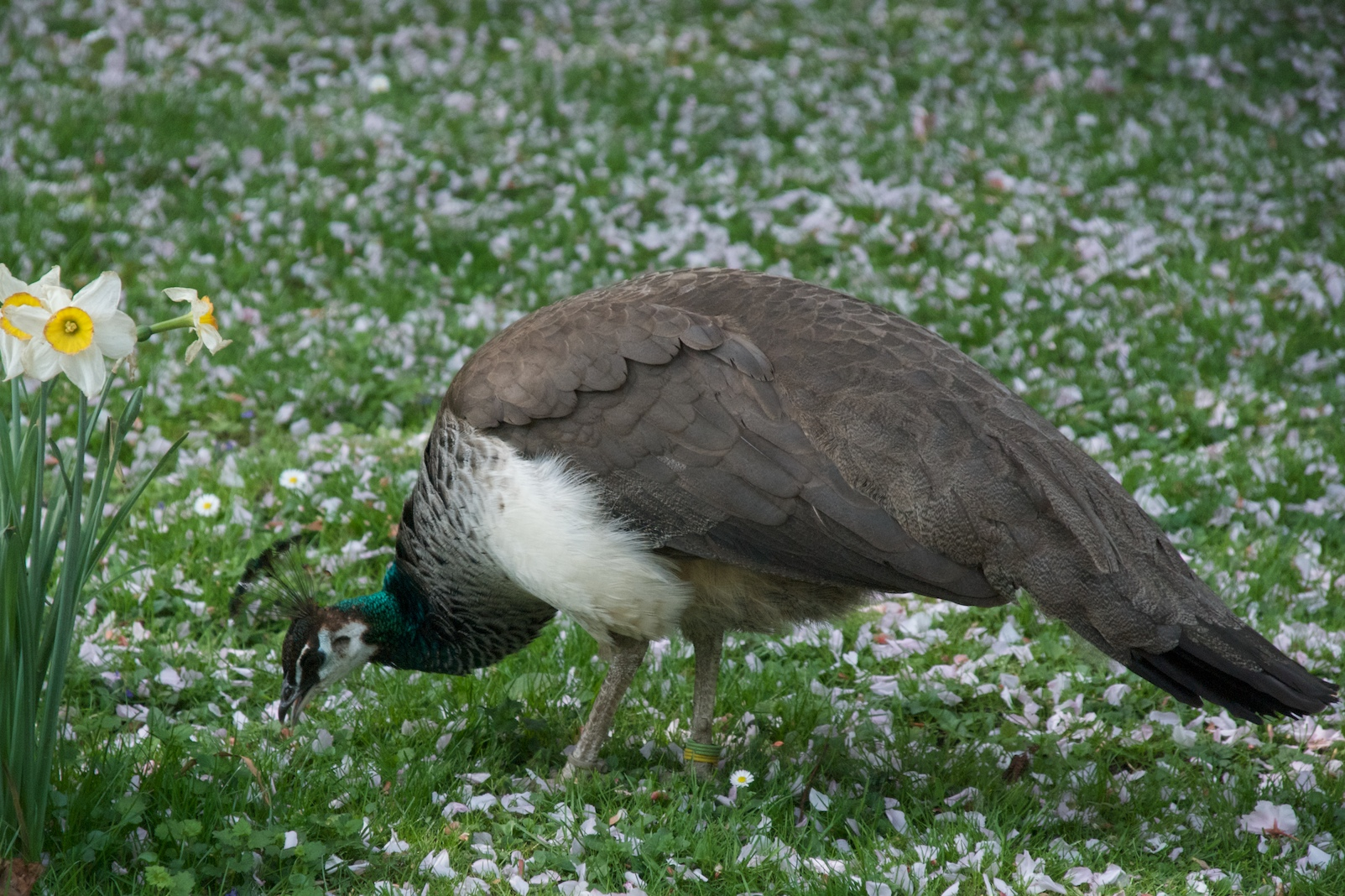 A female Indian Peafowl at Tierpark Hagenbeck, Hamburg, Germany.